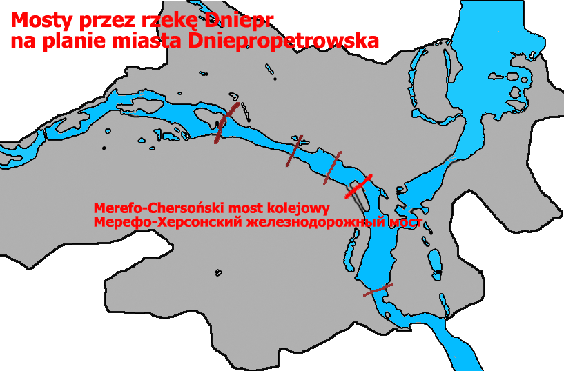 Merefa-Kherson Railway bridge in Dnipropetrovsk, Ukraine